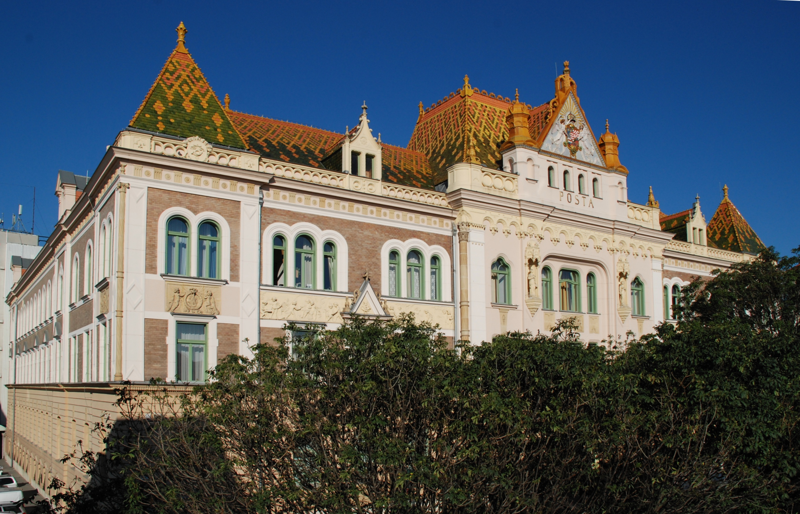 Post office roof, Pécs, Hungary. Architect: Balázs Ernő (1902-04). Roof tiles produced by Zsolnay.